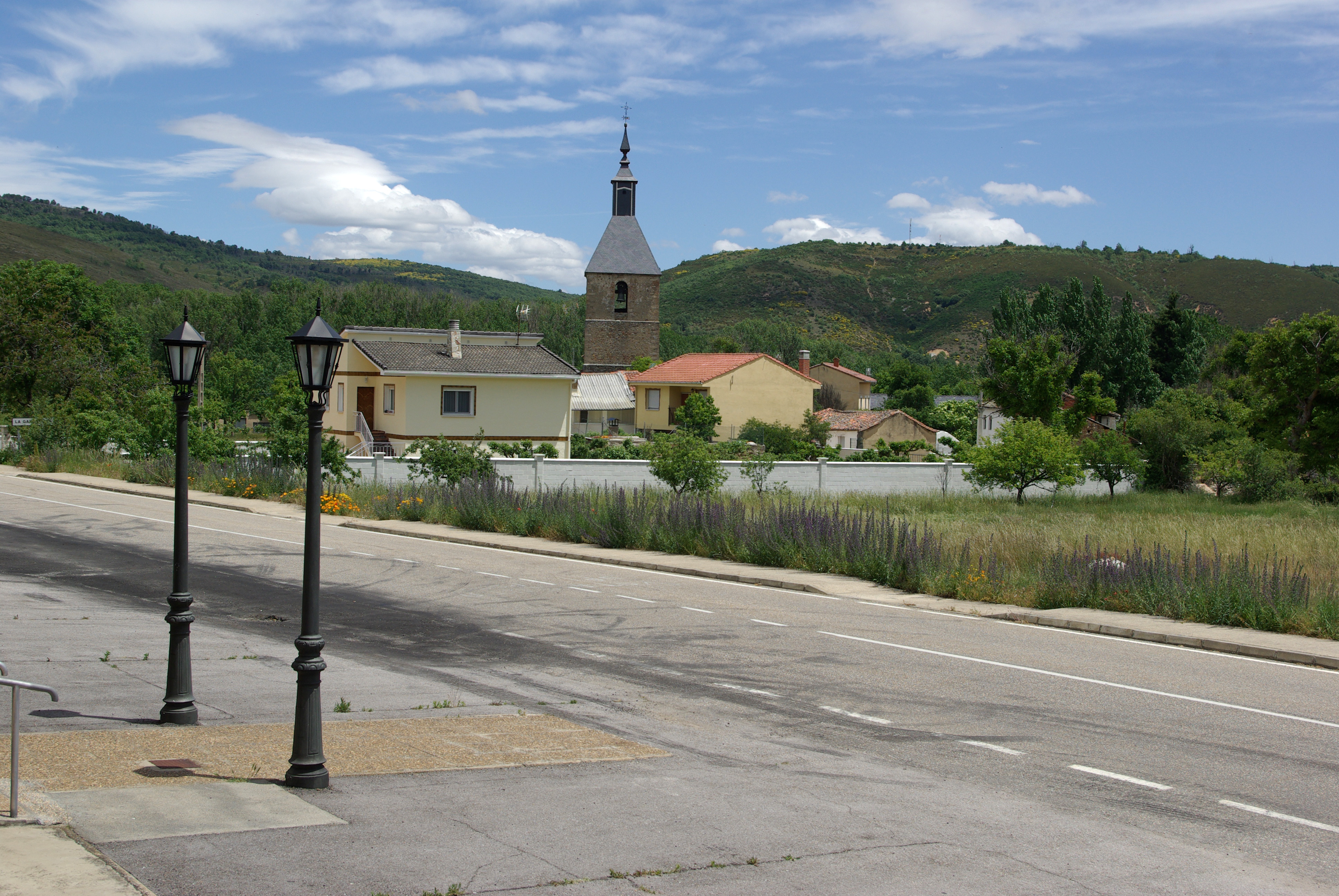 La Garandilla (Valdesamario León, Spain).